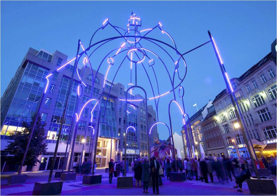 Picture made by me of a public installation in a public space. August 2013